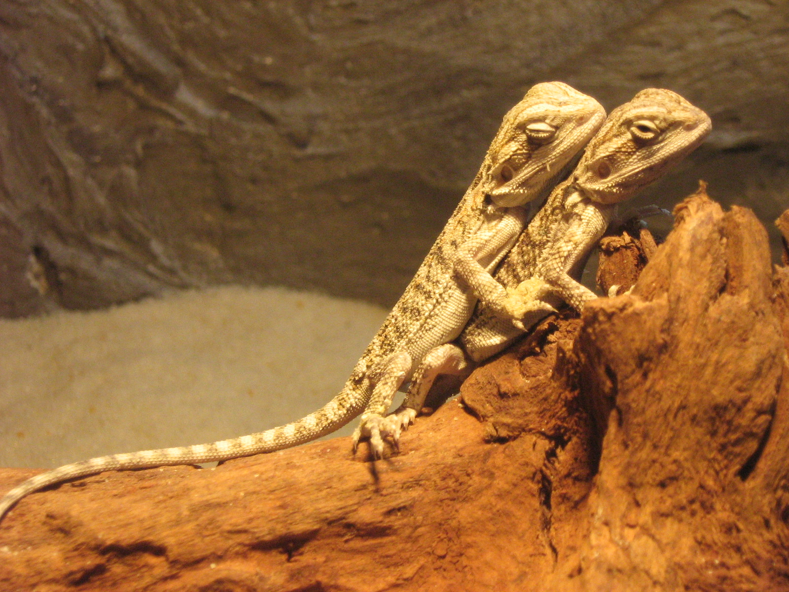 Two very young bearded dragons, owned by Merijn Kanis, enjoying the warmth coming from a light bulb.